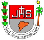 Trajano de Morais municipalty coat of arms